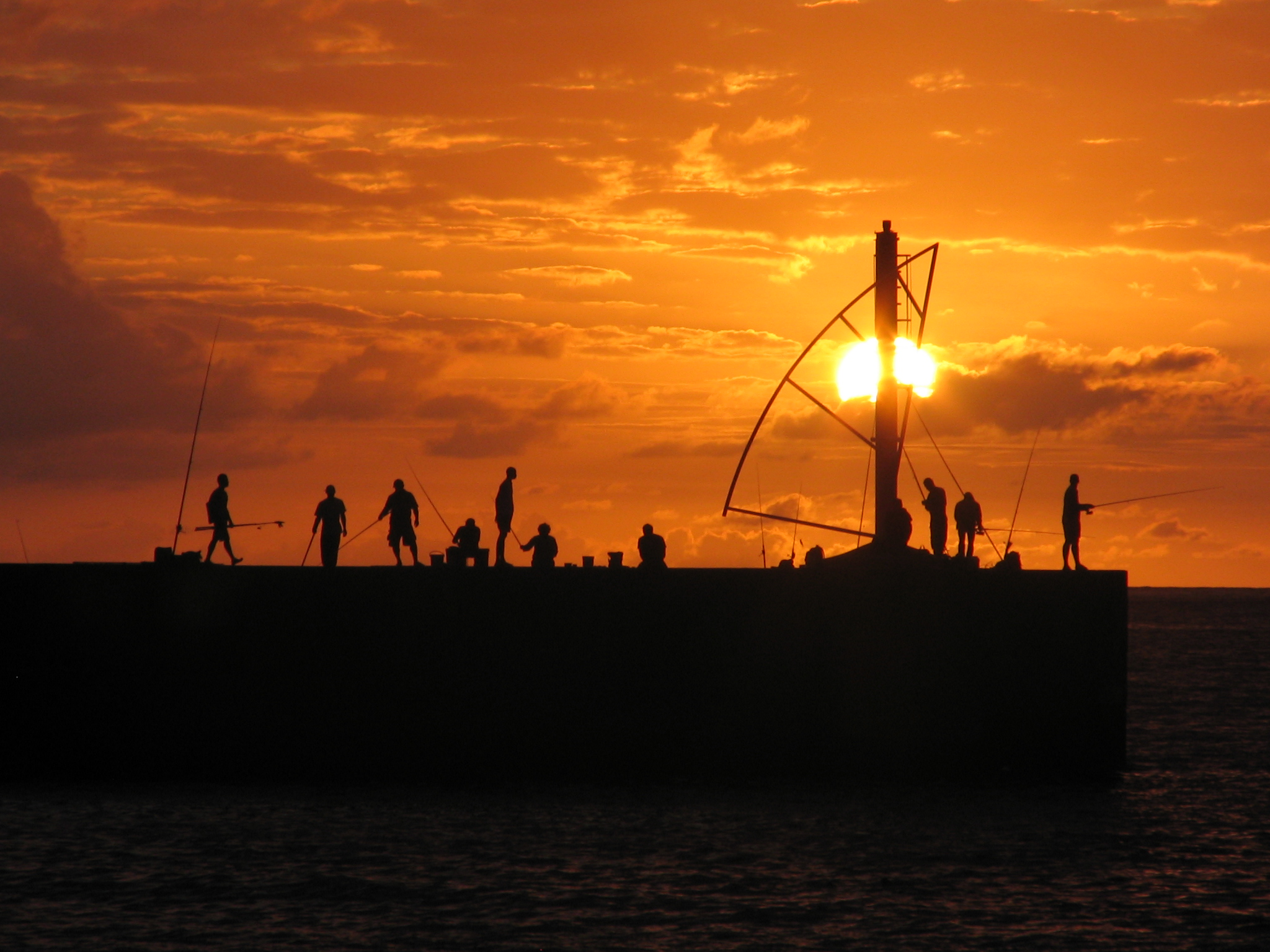 Sunset over the Breakwater of Saint Gilles les Bains harbor as seen from the Roches Noires beach in Réunion island in October.